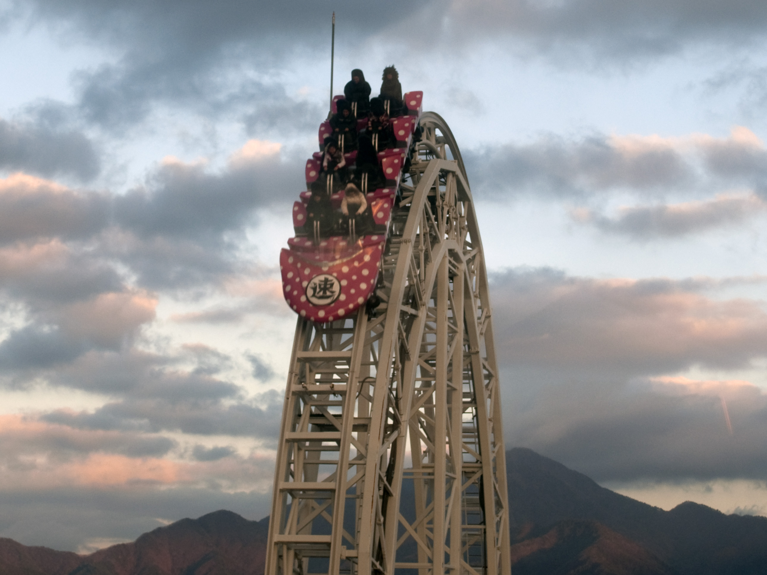 Dodonpa Roller Coaster going down from the top point in Fujikyu Highland in Fujiyoshida, Yamanashi, Japan.